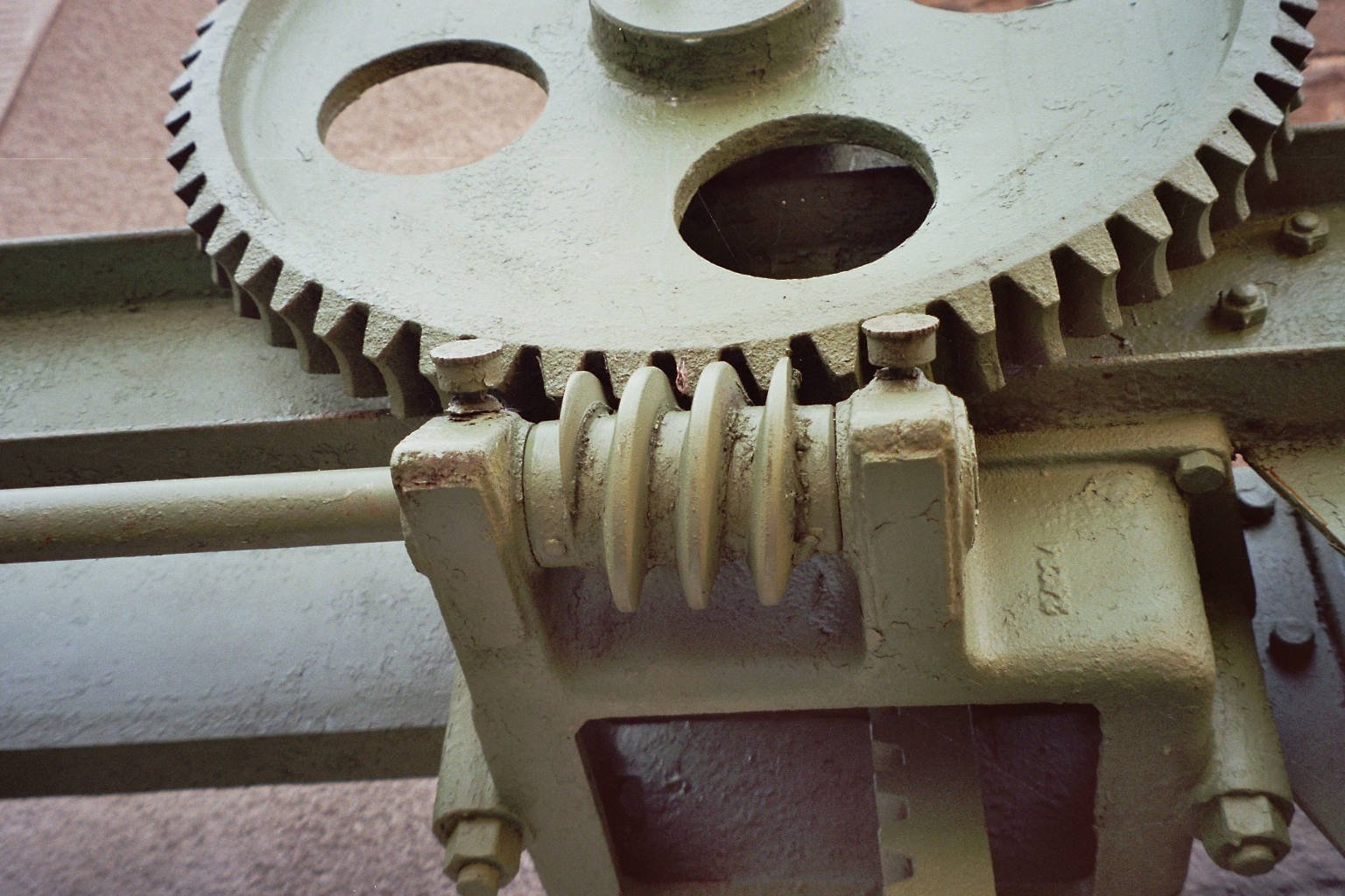 A worm gear drive of a weir mechanism of a water power plant